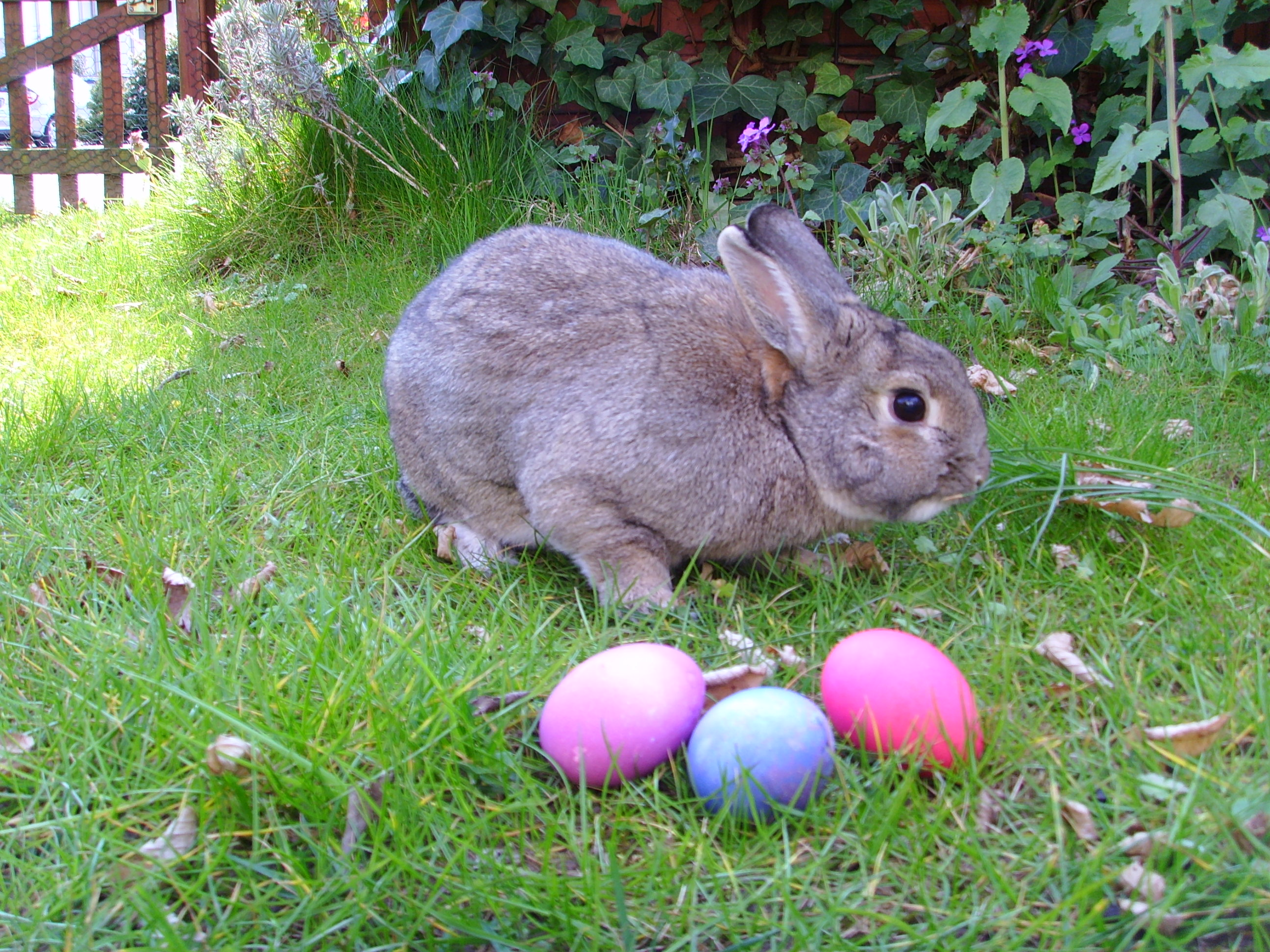 Domestic rabbit and 3 easter eggs from Germany